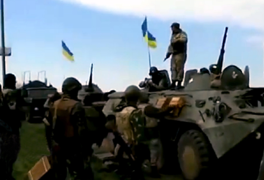 Ukrainian government troops with their hardware in Donbass.